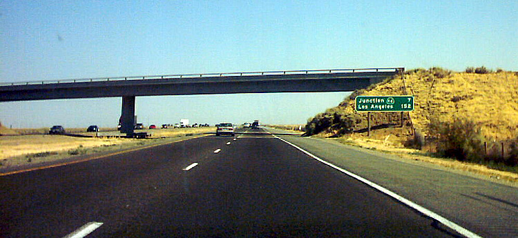 A typical stretch of Interstate 5 in the Central Valley of California. The section shown is Interstate 5 southbound at the Weiser Road overpass in Kern County, about 7 miles (11 km) north of Lost Hills. This image needs restoration. If the old version is still useful, for example if restoring the image will alter the image significantly, upload the new version under a different title so that both can be used (e.g. File:Mount_Everest.jpg → File:Mount_Everest - restored.jpg . After uploading the restored version, replace this template with: superseded|File:Mount Everest - restored.jpg|image restored , replacing the italicised name with the file name in question.